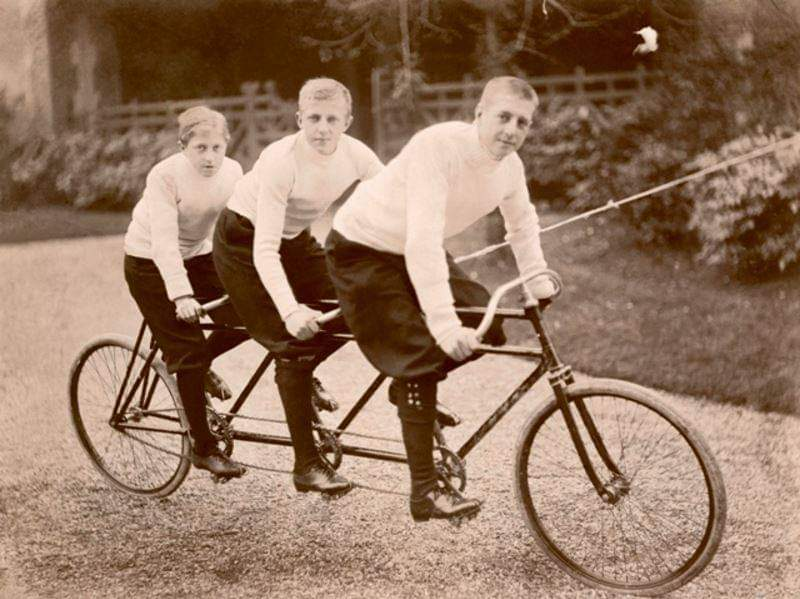 Princes Antônio, Luís and Pedro of Orléans-Braganza (children of Isabel, Princess Imperial of Brazil)